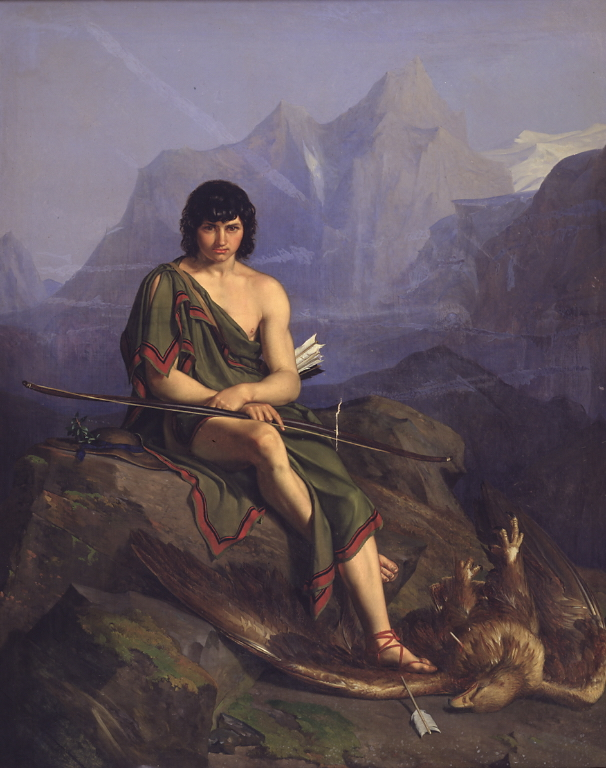 "En bueskytte der hviler efter at have dræbt en ørn" (A Hunter Resting after Killing and Eagle), painting by German-Danish artist Heinrich Eddelien. Oil on canvas. 117.5 by 94 cm. Statens Museum for Kunst.